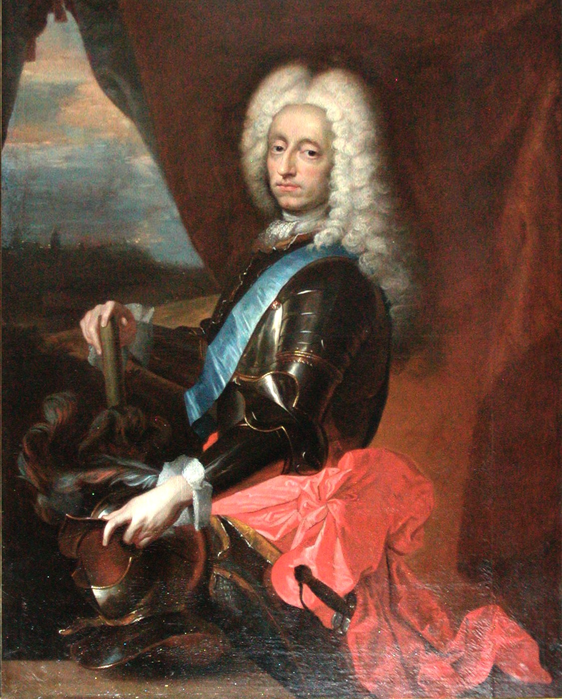 Portrait of Frederik IV of Denmark (1671-1730)